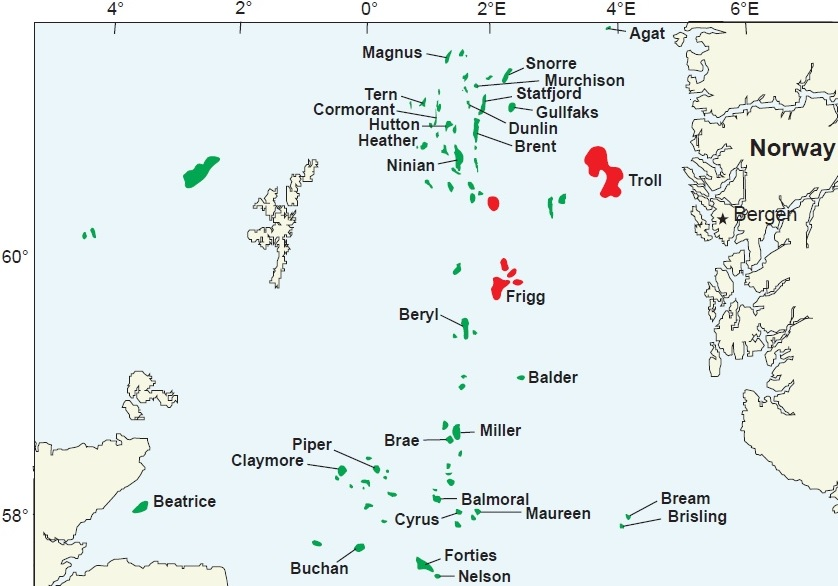 North Sea Oil and Gas Fields. Oil fields are shown in green, Gas fields - in red. Based on data from "Glennie, K.W., ed., Petroleum geology of the North Sea (4th ed.): London, Blackwell Science Ltd., 1998, frontispiece"